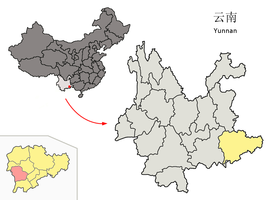 Location of Wenshan County (pink) and Wenshan Prefecture (yellow) within Yunnan province of China Map drawn in october 2007 using various sources, mainly : Yunnan province administrative regions GIS data: 1:1M, County level, 1990 Yunnan Counties map from